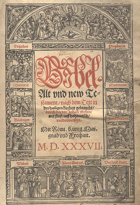 front page of Johannes Eck's catholic bible from 1537, the first translation of the full bible into Bavarian, three years after Martin Luther's translation into Middle German